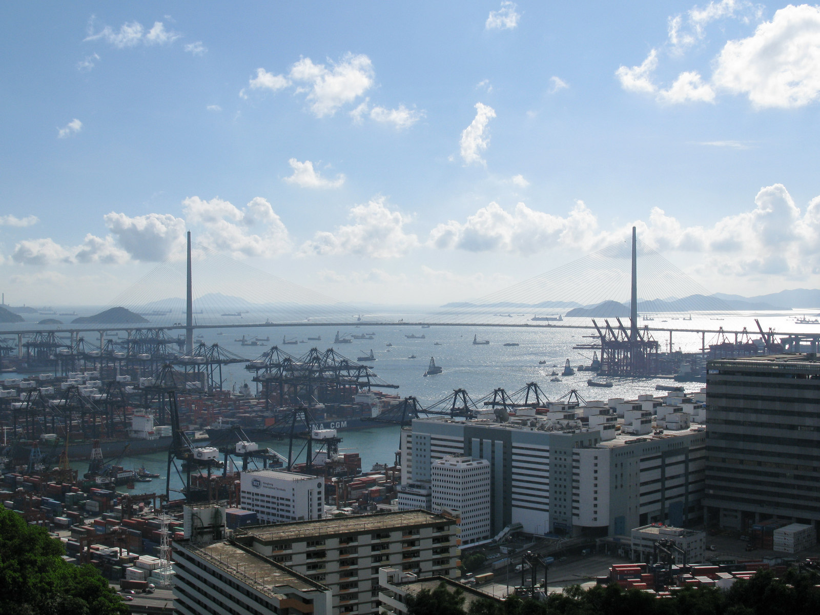 Stonecutters Bridge